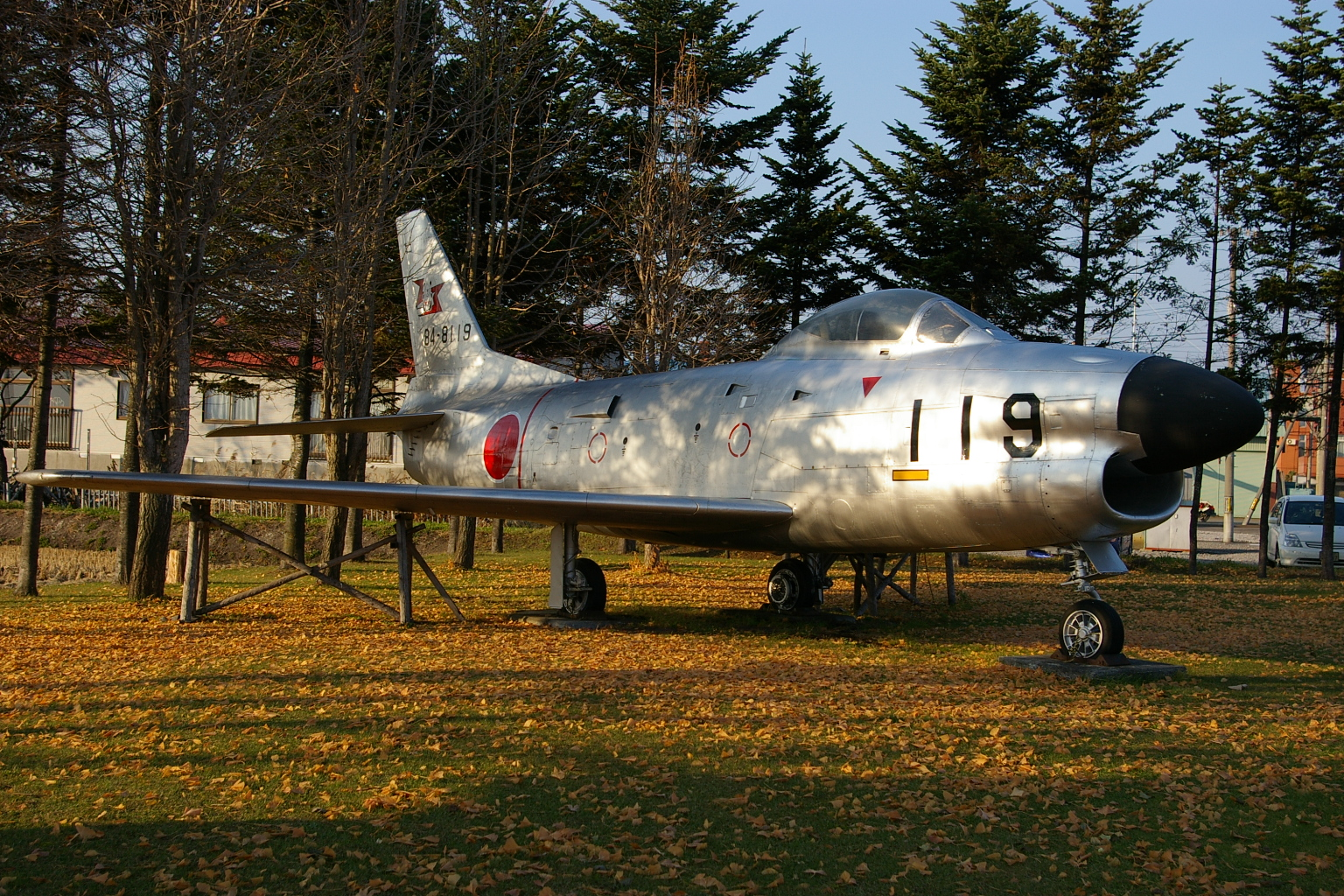 JASDF F-86D was exhibited in Chippubetsu Town, Hokkaido. In 2016, F-86D was demolished for the renewal date of this park.